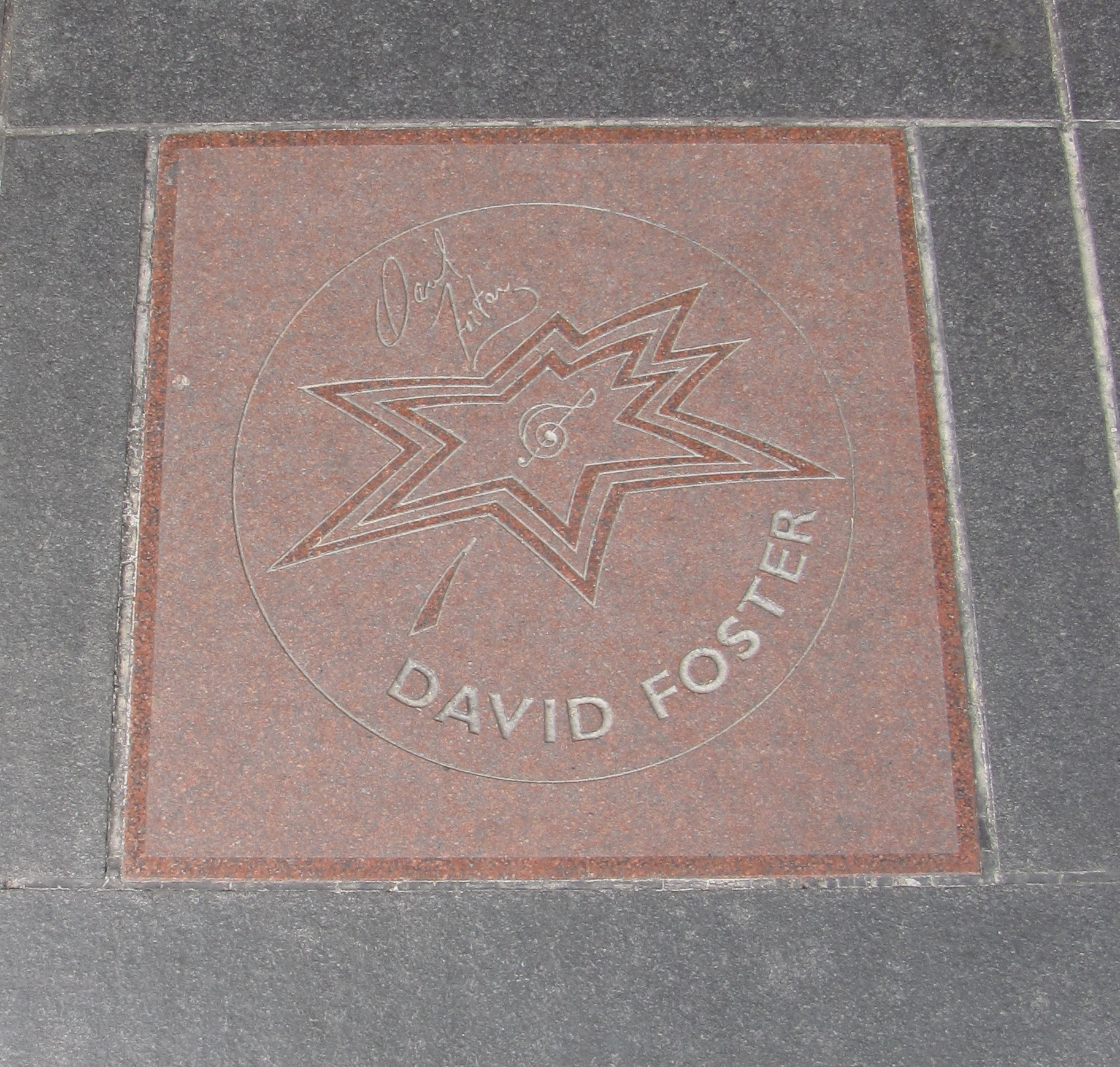 David Foster's star on Canada's Walk of Fame